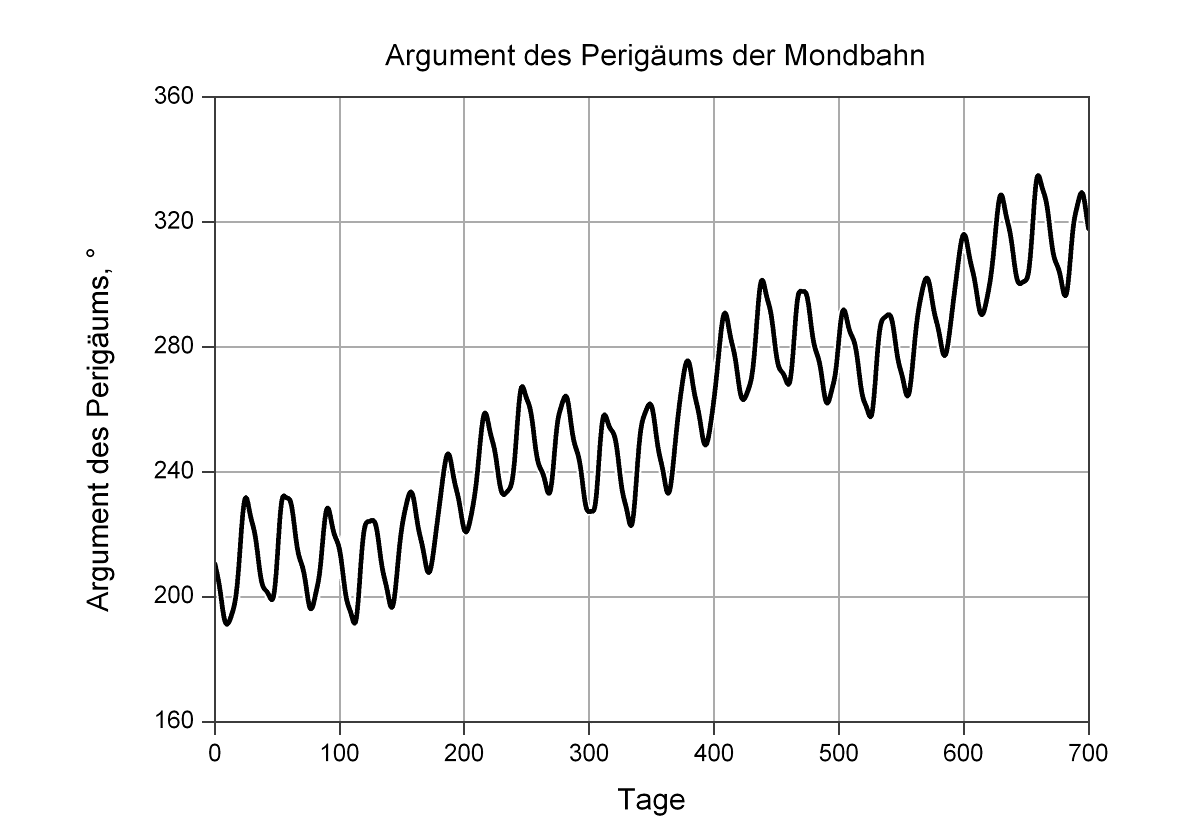 Movement of the perigee of the instantaneous osculating ellipse describing the Moon's orbit over 700 days. Drawn by myself. Data from JPL's HORIZONS ephemeris generator.